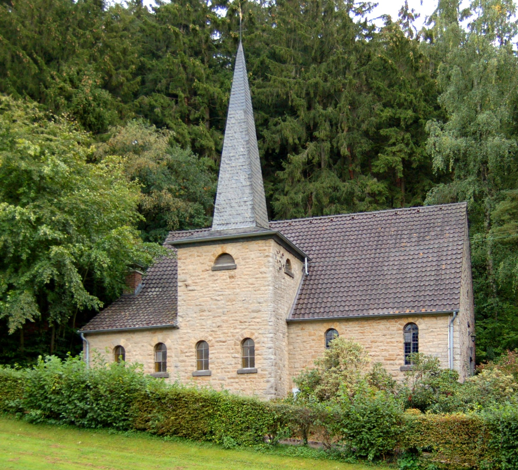 St Berhard Chapel in Walheim